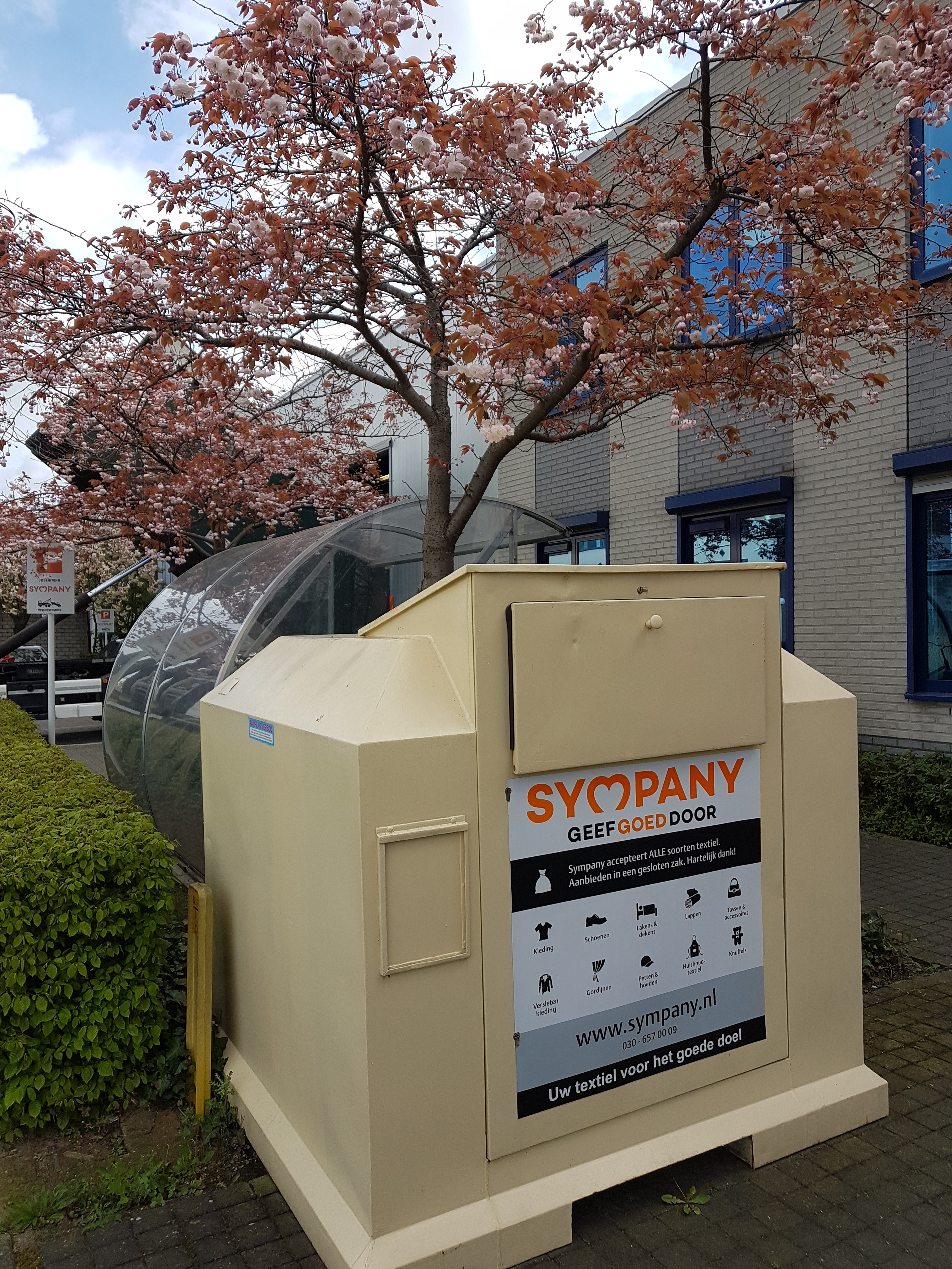 Container hoofdkantoor